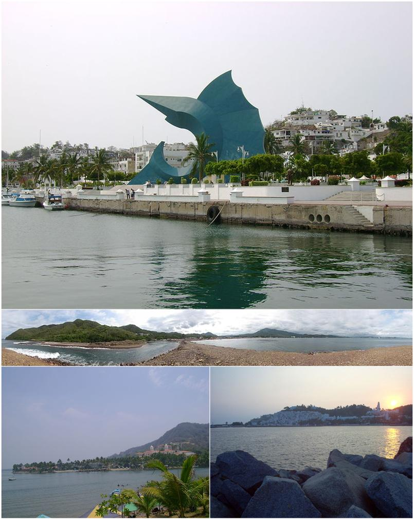 360 panorama of La Boquita beach in Manzanillo, Colima. Isla Navidad, jalisco, Mexico. Atardecer en Las Hadas, Manzanillo, Colima, México.